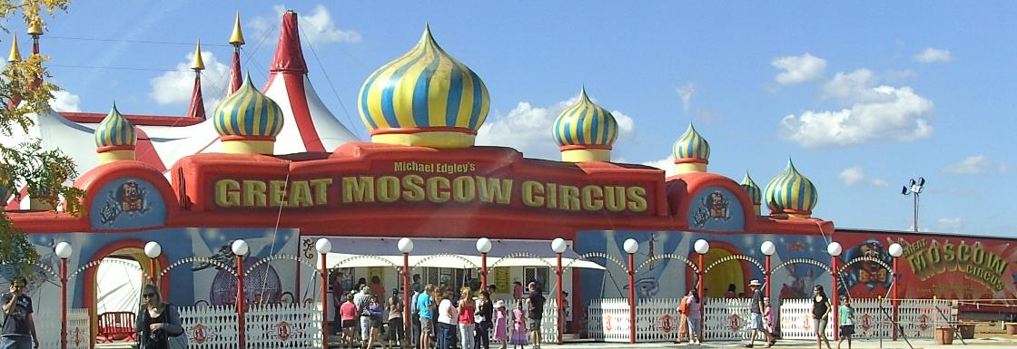 Michael Edgley's Australian Great Moscow Circus, Canberra, April 2010